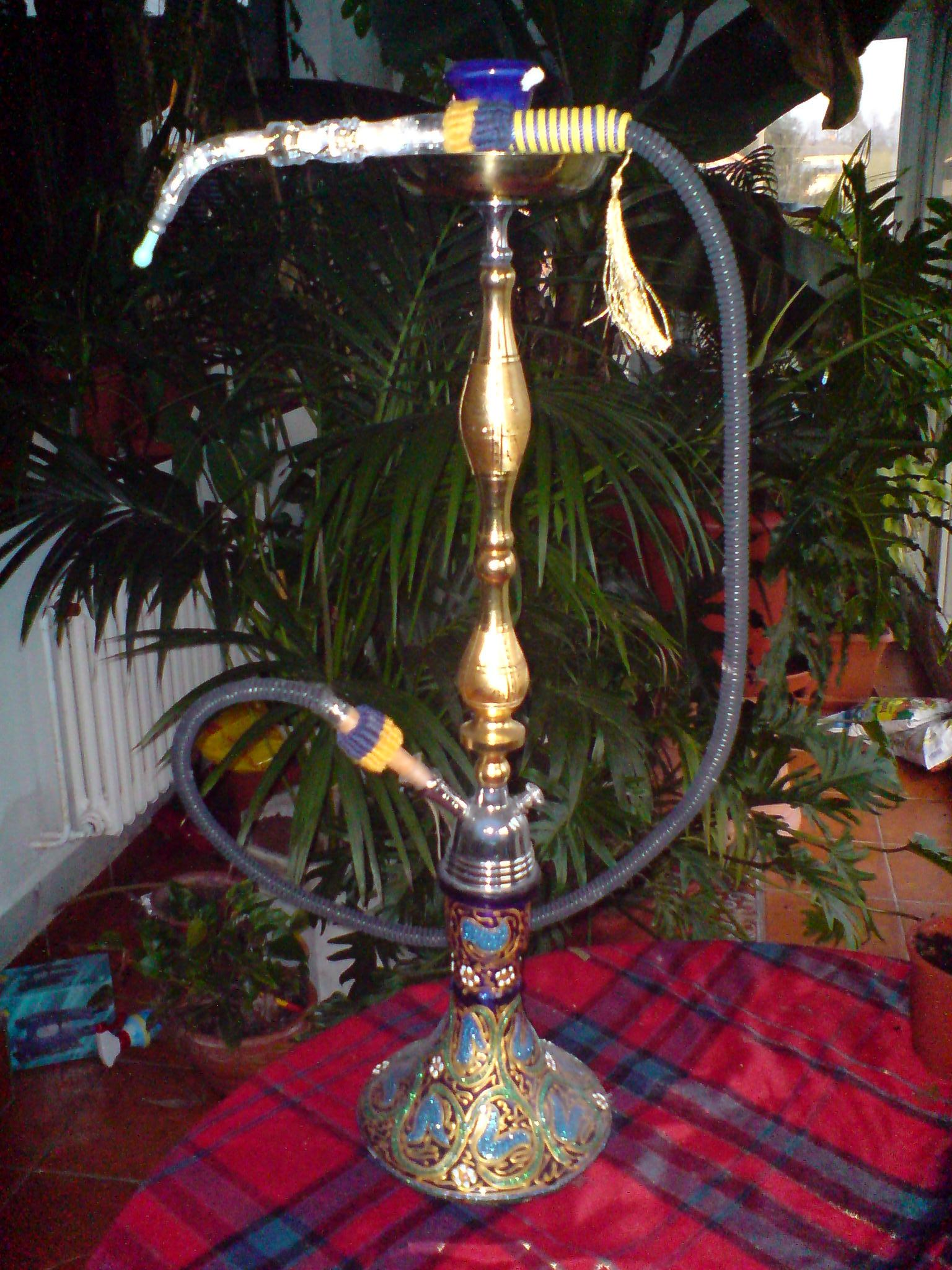 Water pipe.